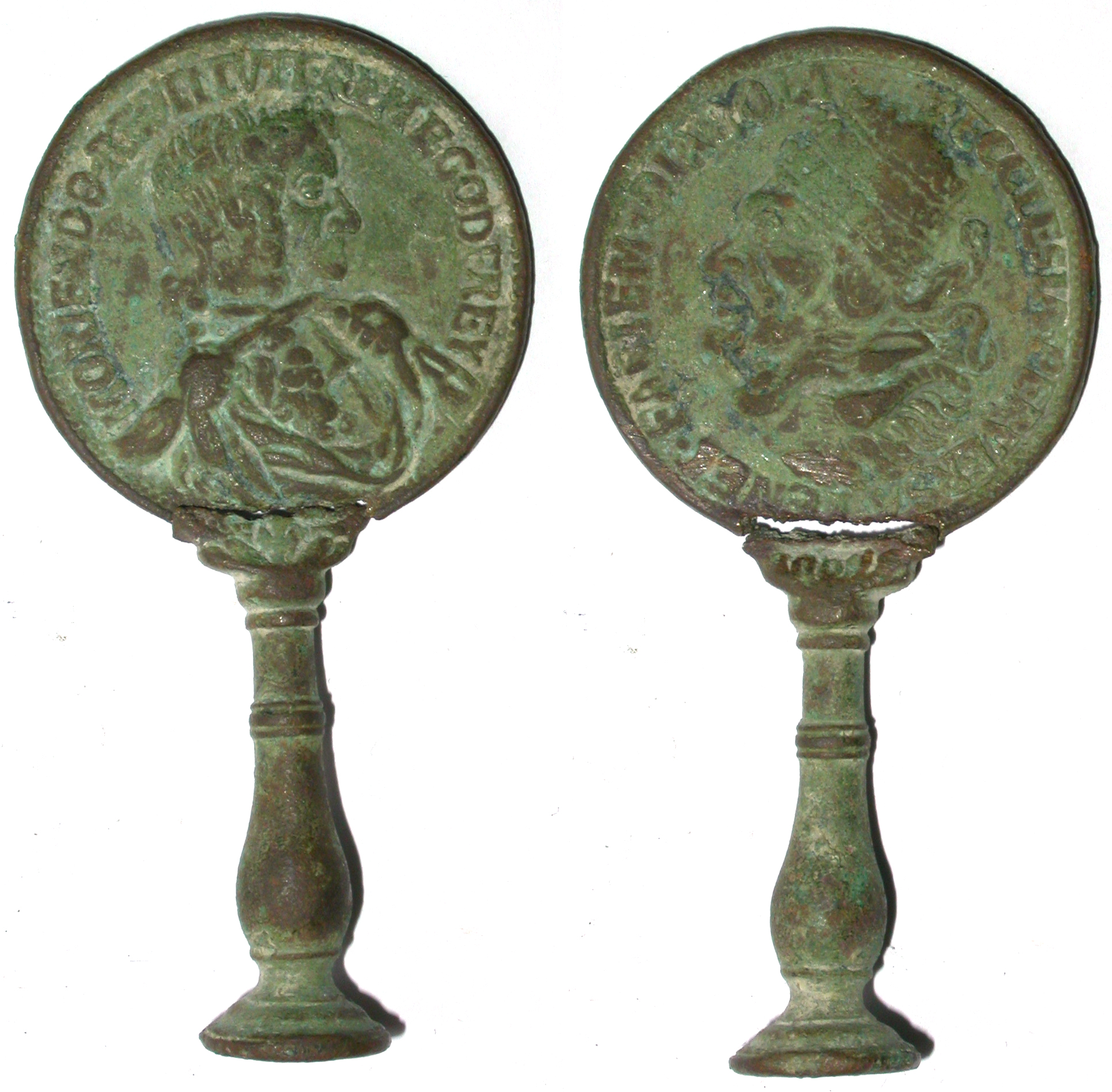 A complete cast copper alloy clay tobacco pipe tamper, now in two pieces. The head of the tamper is made using the design of a contemporary anti-papist medallion (diam.12.92mm) issued in 1678. The shaft of the tamper is of baluster form. Side 1. The head of the pope in profile; when inverted he appears as the devil. ECCLESIA.PERVERSA.TENET.FACIEM.DIABOLI The church subverted takes on the face of the Devil. Side 2. Bust of Sir Edmundbury Godfrey facing right. MORTENDO.RESTITVIT.REM.E.GODFREY E(dmundbury) Godfrey by his death re-established the state. Godfrey was believed to have been murdered by Catholics on 12th October 1678.